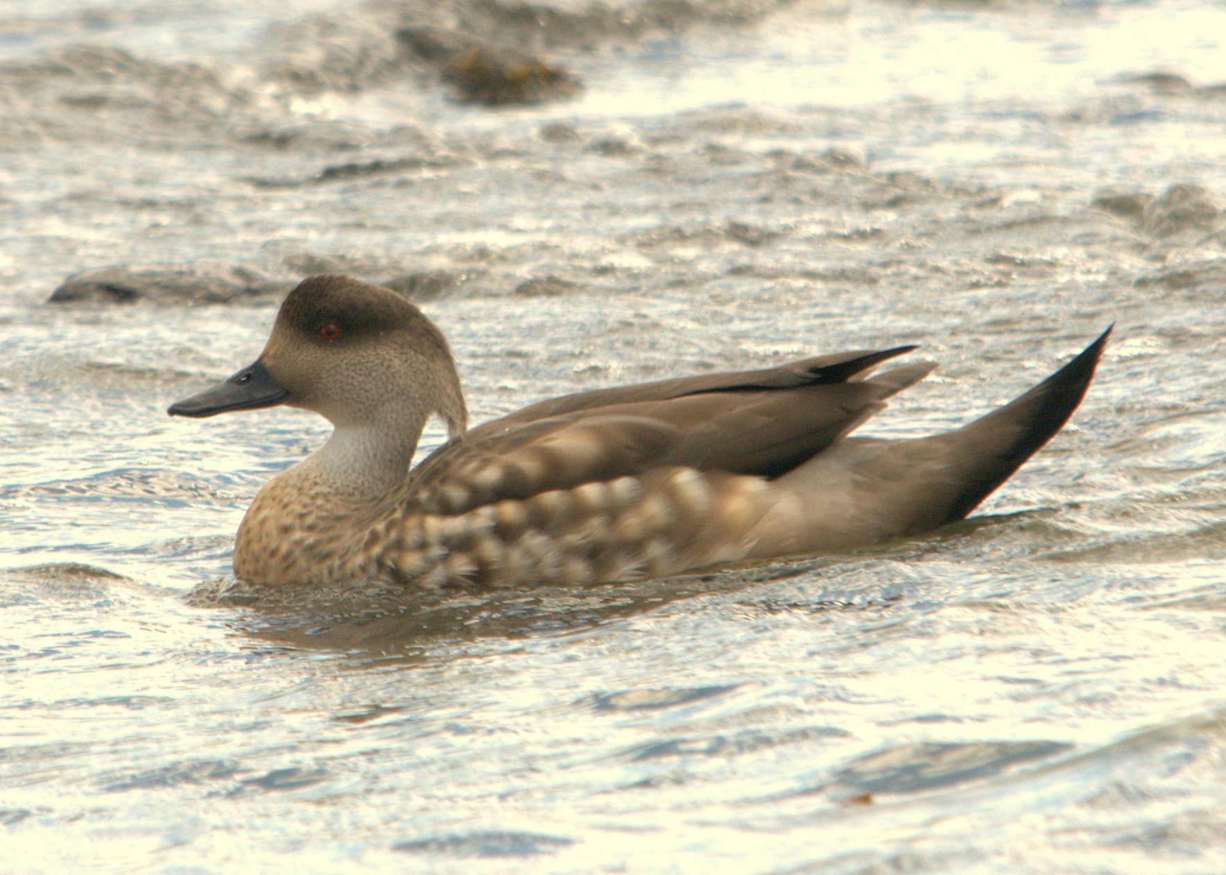 A Patagonian Crested Duck in Puerto Natales, Patagonia, Chile.